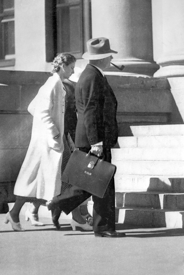 Vivian MacMillan arriving at the Edmonton courthouse at which she was suing John Brownlee for seduction. The man with her is variously identified as her lawyer, Neil MacLean,[1] or her father, Allan MacMillan.[2]